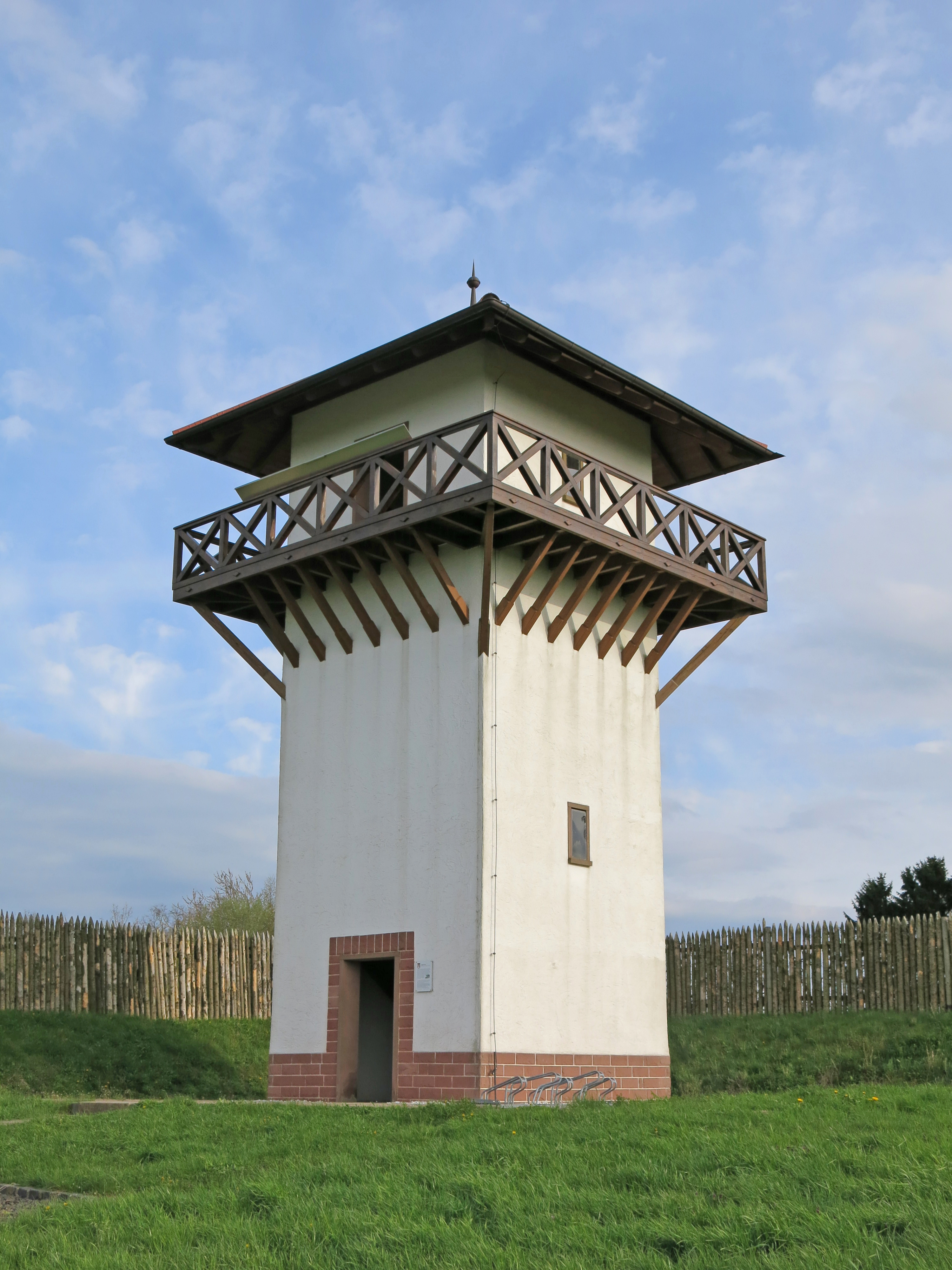 Lookout-tower near Mastershausen in Rhineland-Palatinate.